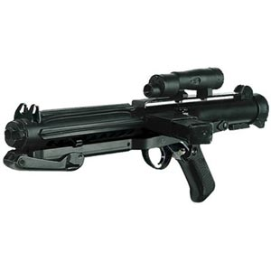 My photo of replica E-11 blaster rifle